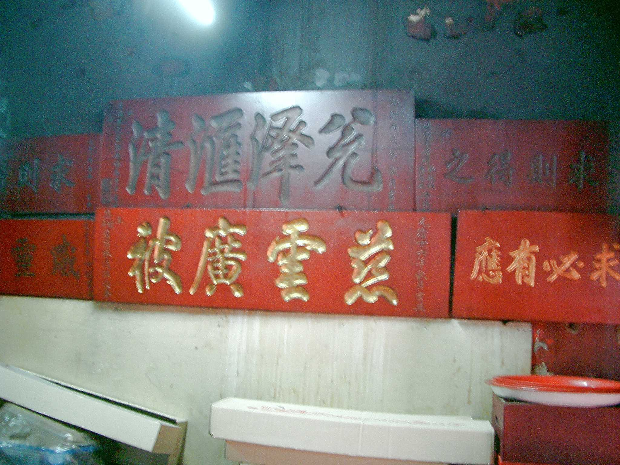 Historic Plaques, Wat San Chao Chet, Bangrak, Bangkok, Thailand